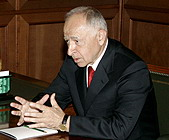 Mukhu Aliev, incumbent president of Dagestan